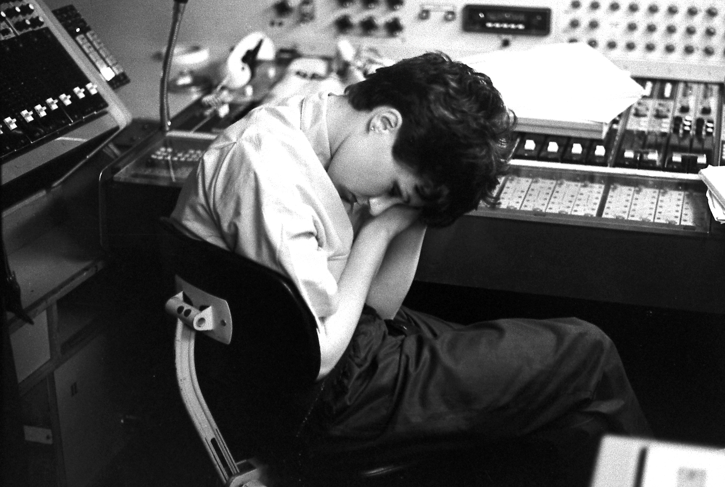 Pauline listened to the audio tape in the Radiotruck from Dutch Public Radio (Vara) after the concert in Het Paard (the Hague) April 3, 1981